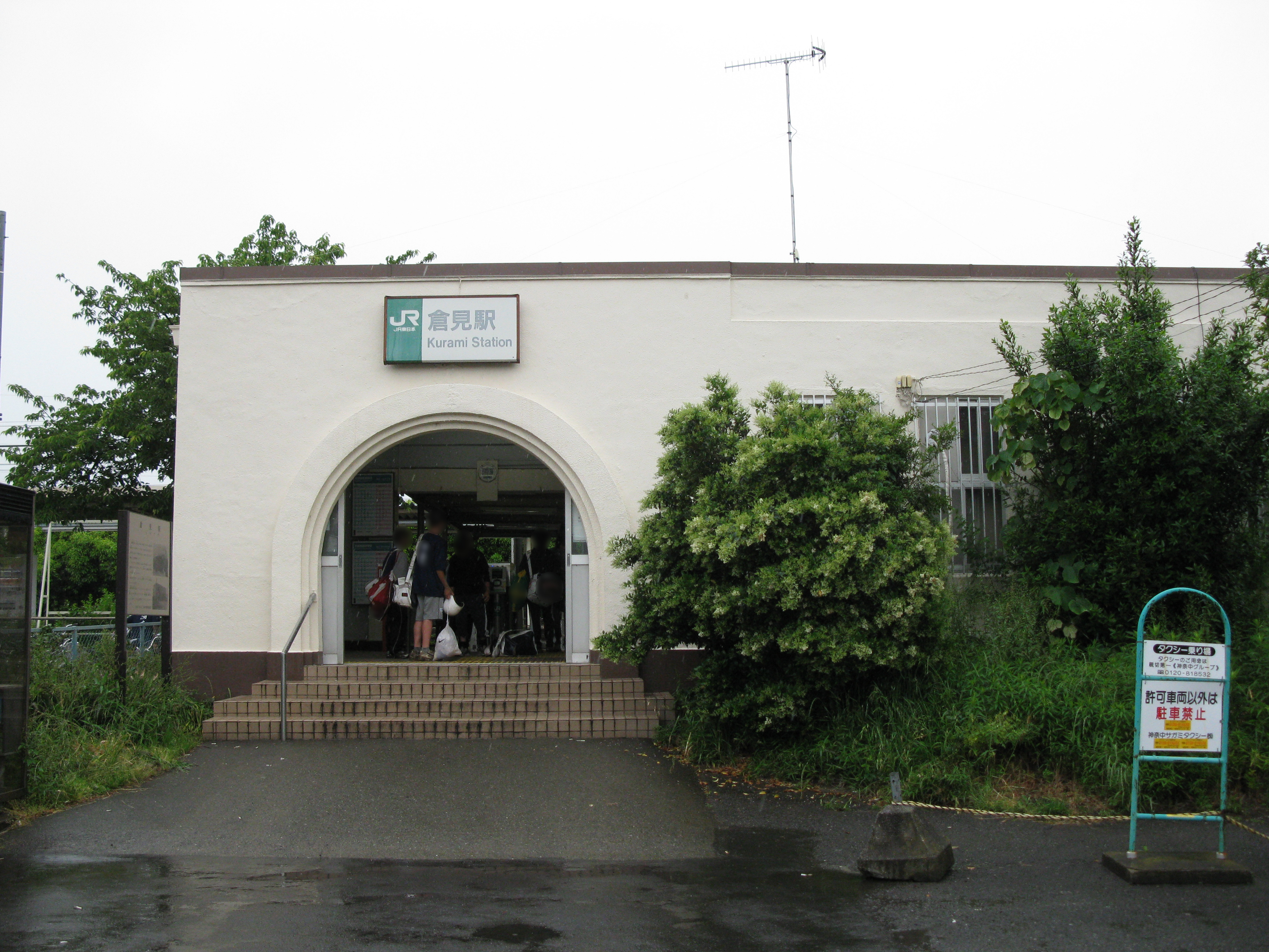 Kurami Station building (East Japan Railway(JR East) Sagami Line)